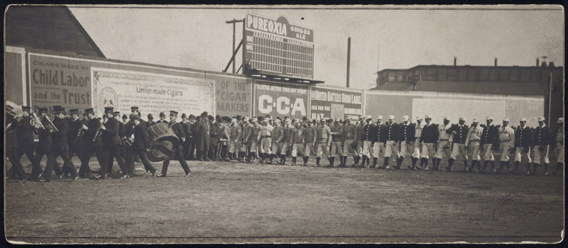 Accession No.: 06_06_000001 Title: Opening Day ceremonies, 1904 Creator: unidentified Date: 1904 Format: photograph Description: Boston Americans and the Washington Nationals march out to center field behind band at the Huntington Avenue Grounds in celebration of winning the first World Series in 1903. BPL Collection: McGreevey Collection BPL Department: Print Subject: Boston Red Sox (Baseball team) Washington Nationals (Baseball team) Baseball--Massachusetts--Boston--History World Series (Baseball) (1903)